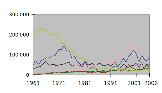 Cash crops production in Tanzania. Legend: Blue:cashew; black: coffee; light green:sisal; dark green: tea; brown:tobacco Agriculture commerciale en Tanzanie. Légende: bleu: cajou; noir: café; brun:tabac; vert clair: sisal; vert sombre: thé